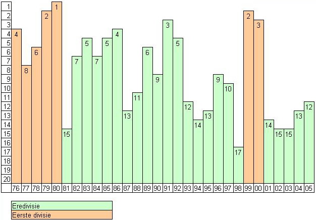 Dutch league positions of Groningen, last 30 seasons